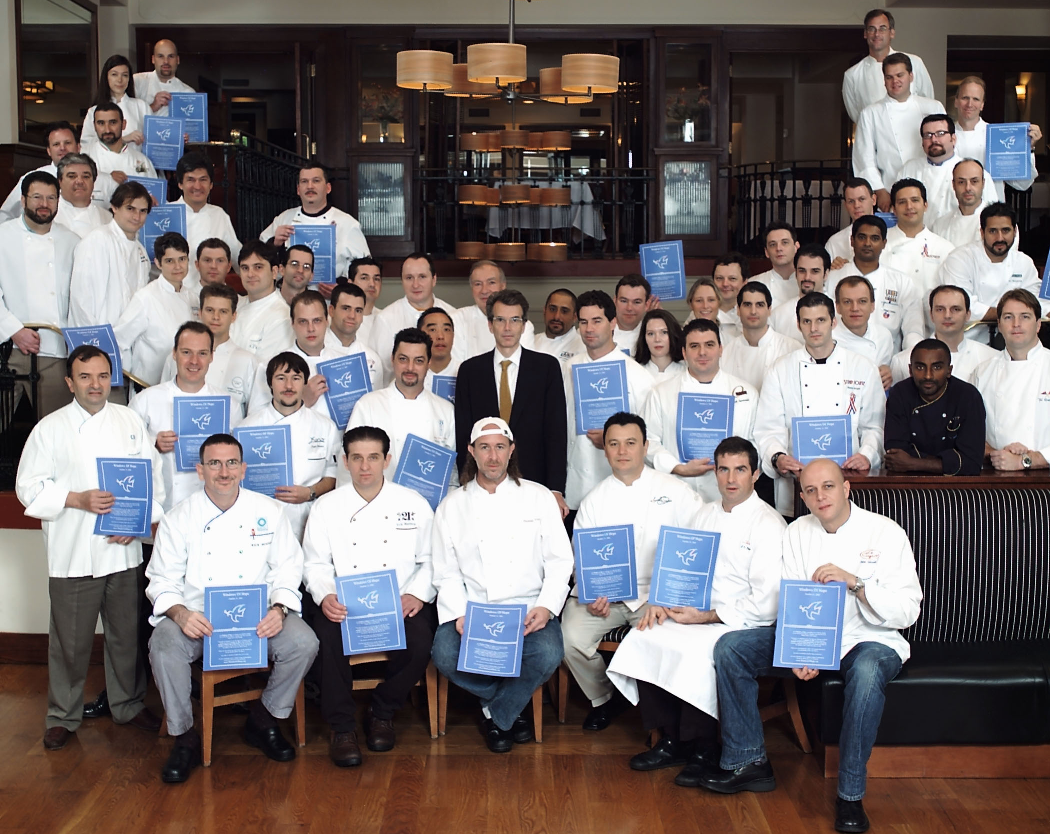 Chefs participating in the Dine Out night supporting Windows of Hope. Taken at Beacon Restaurant on W 56th St.